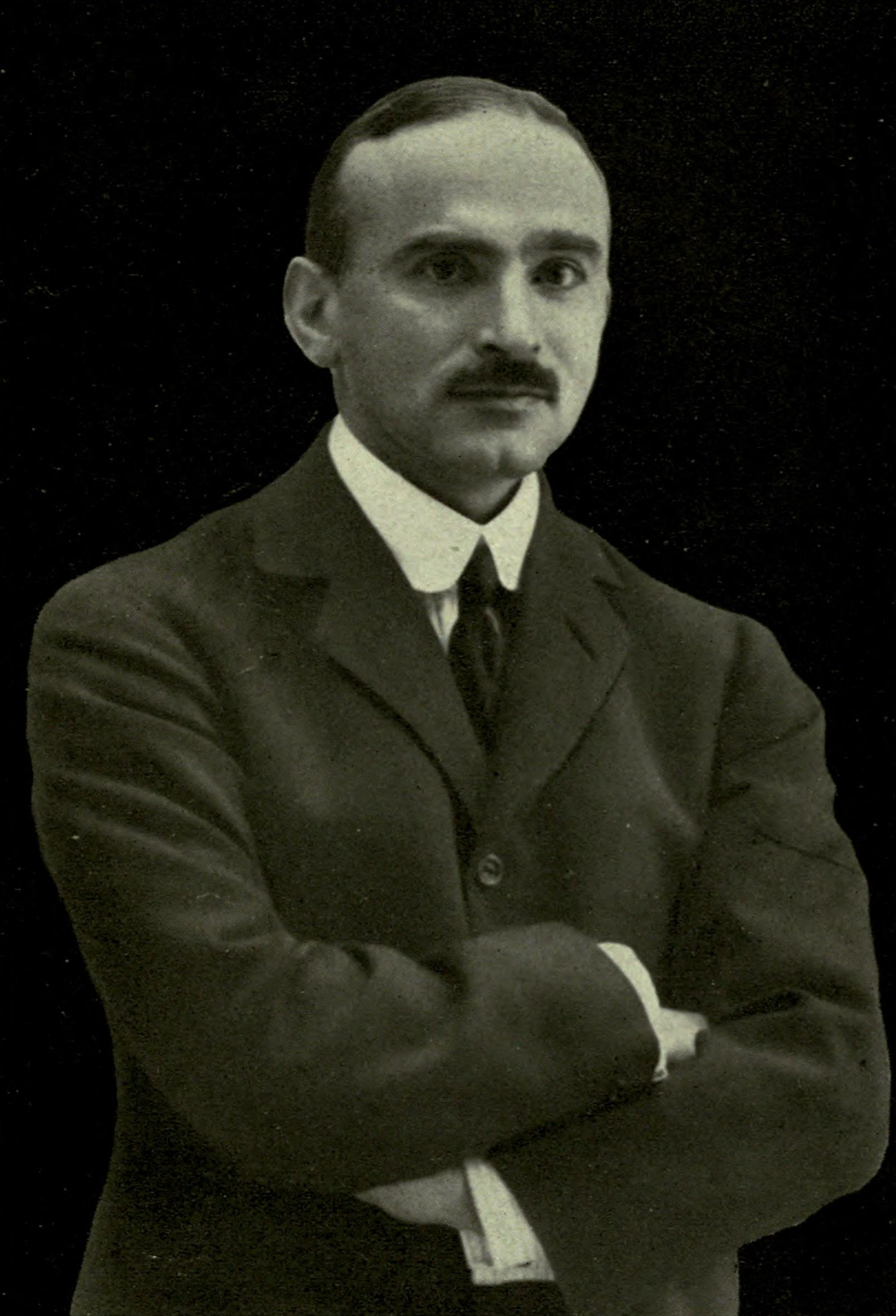 Portrait of Dannie Heineman